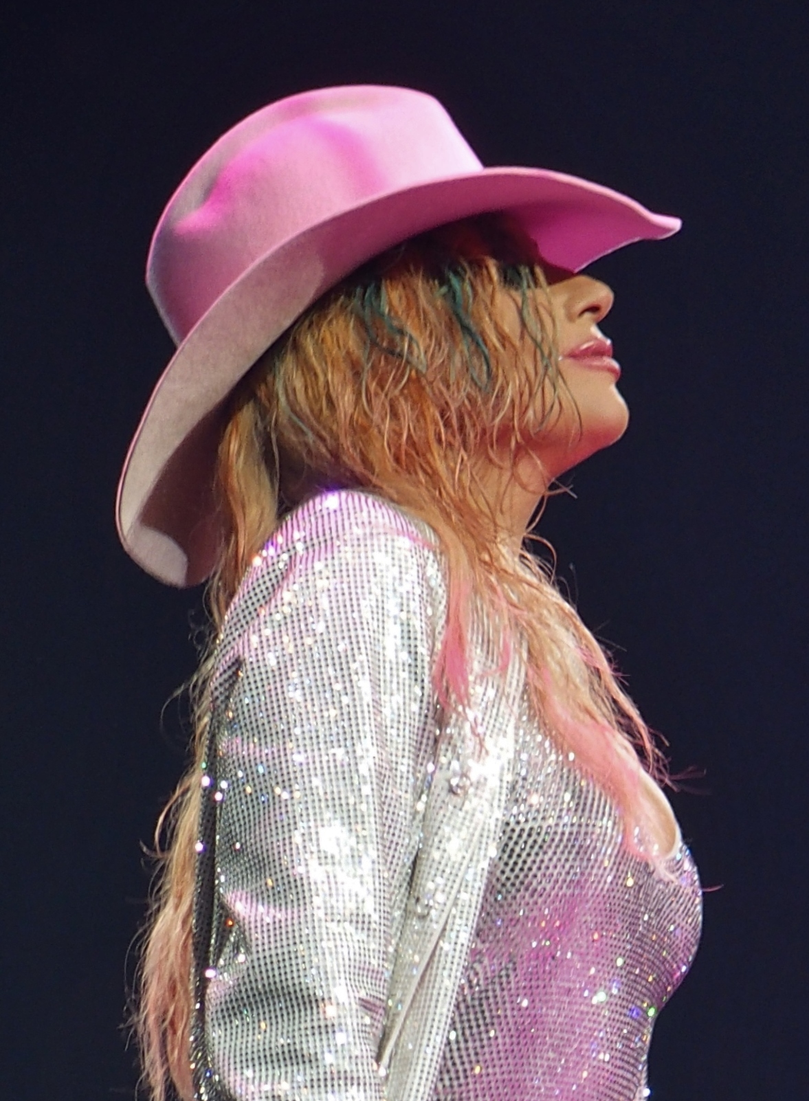 Lady Gaga during Joanne World Tour